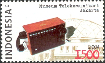 Stamps of Indonesia